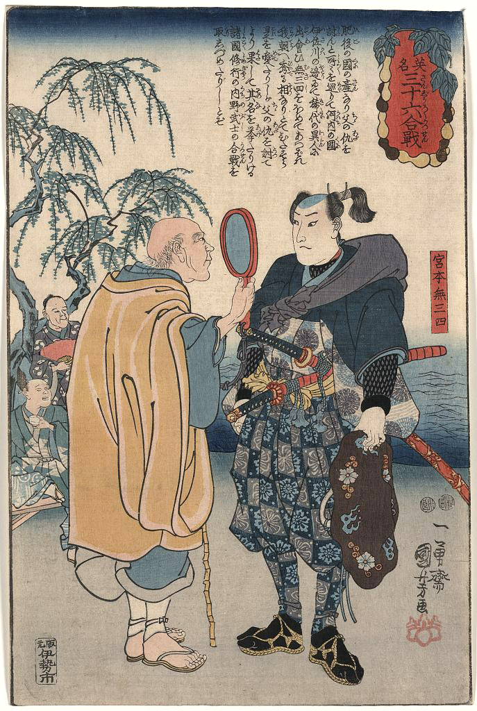 Color woodblock print, ôban, "Thirty-six Famous Battles"